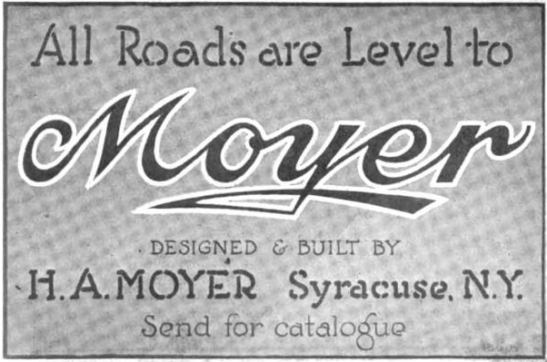 Moyer automobiles - Syracuse, New York 1912